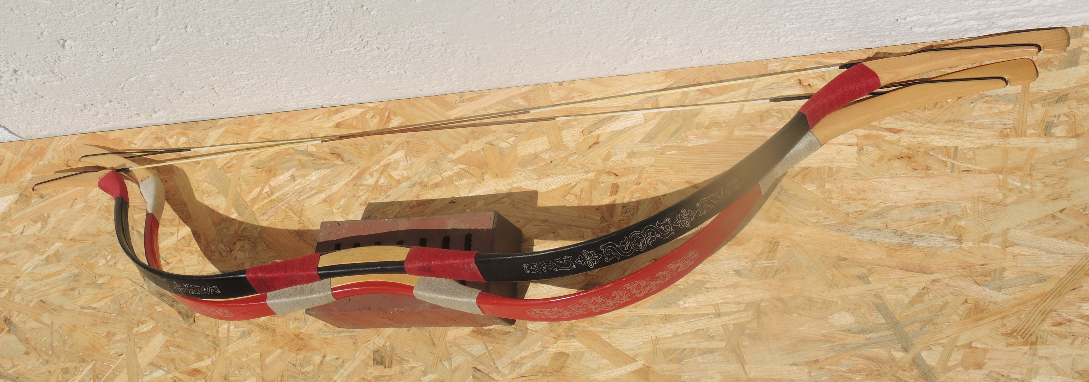 Photos of two bows suited for horseback-archery. The bows were crafted by Lajos Kassai, Hungary. The red bow is an Ölyv, the black bow is a Farkas II.